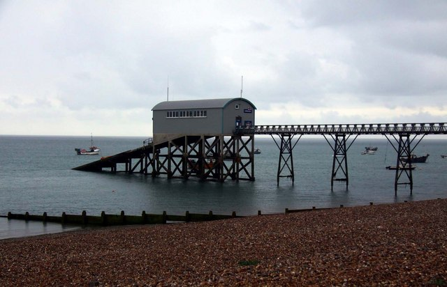 The old Selsey Lifeboat Station. Closed and demolished Summer 2017